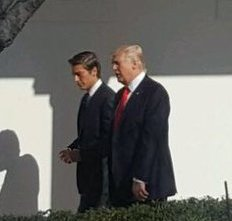 Donald Trump walking through west colonnade during an interview by David Muir for ABC